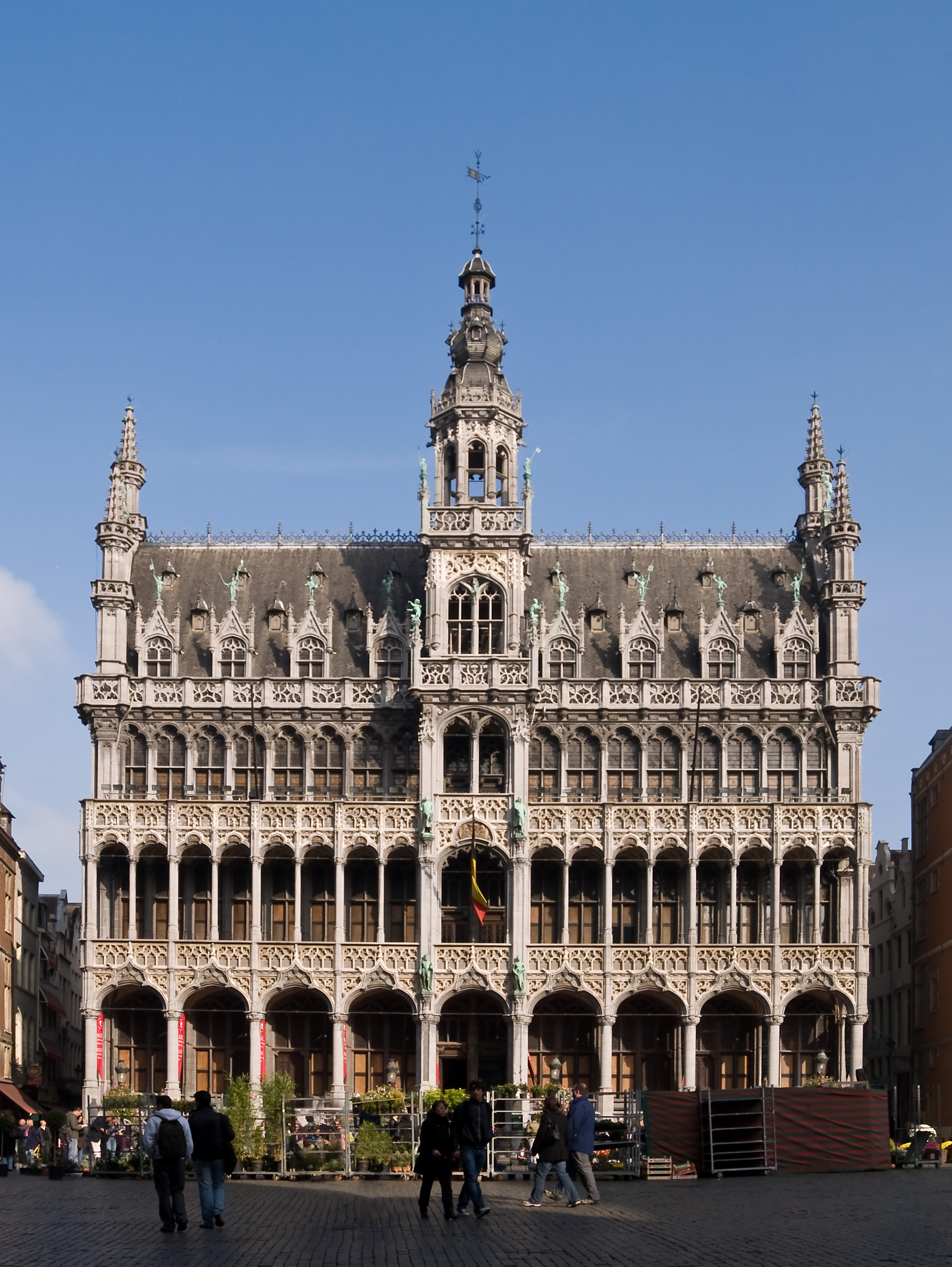 The 'Broodhuis' (= Breadhouse) or 'Maison du Roi' (= King's House), on the Grand-Place of Brussels, Belgium.